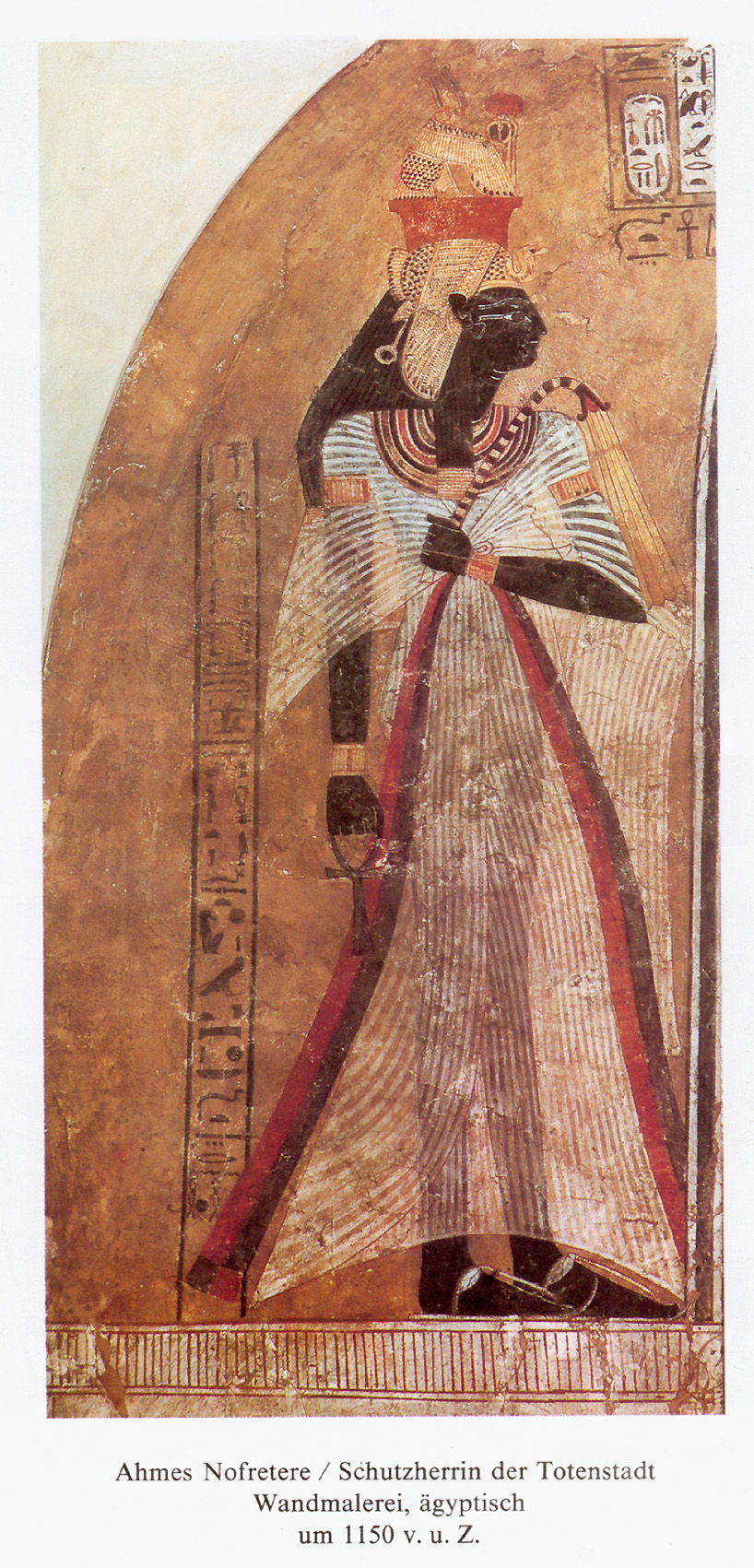 Ahmes Nofretari